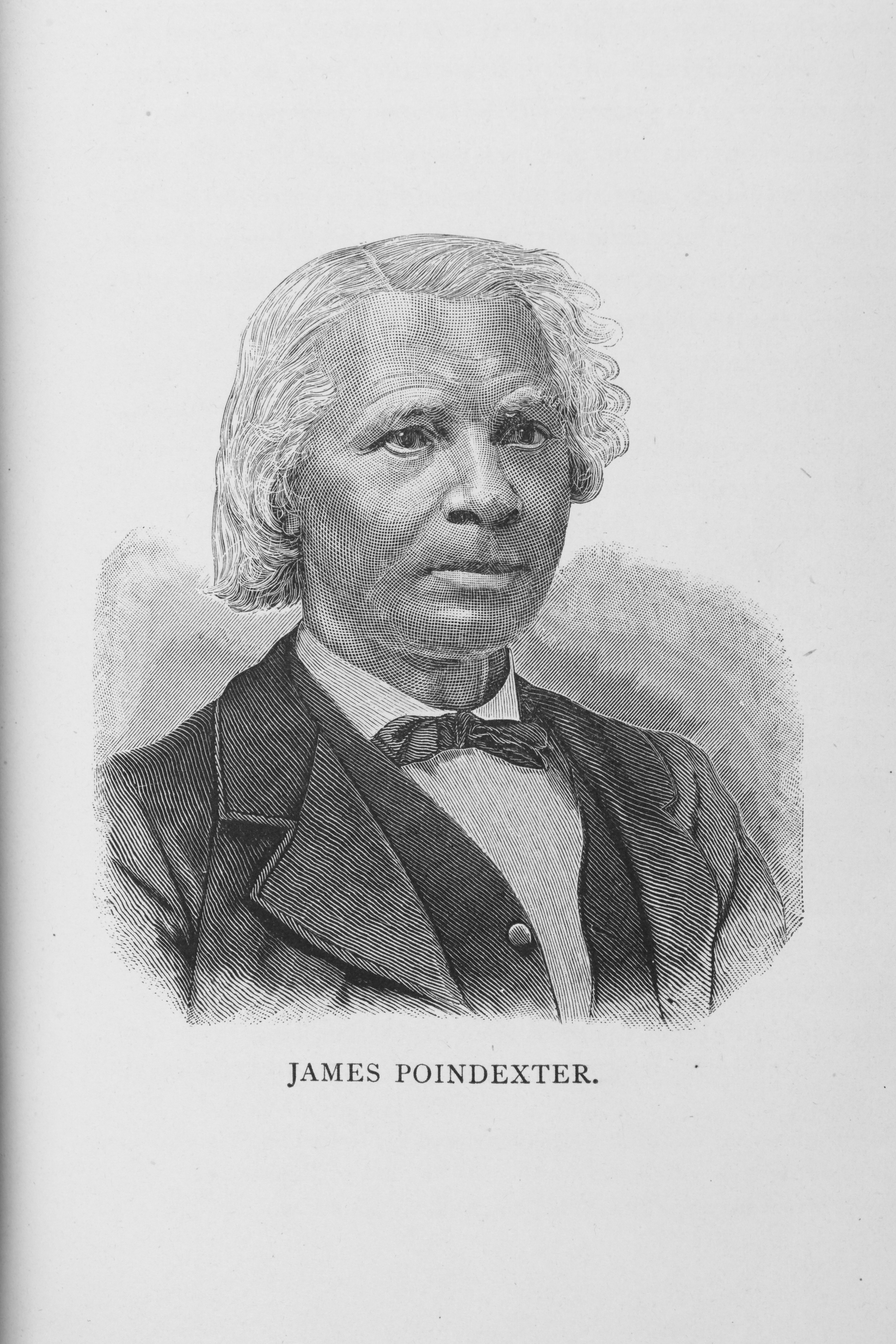 Poindexter in 1887